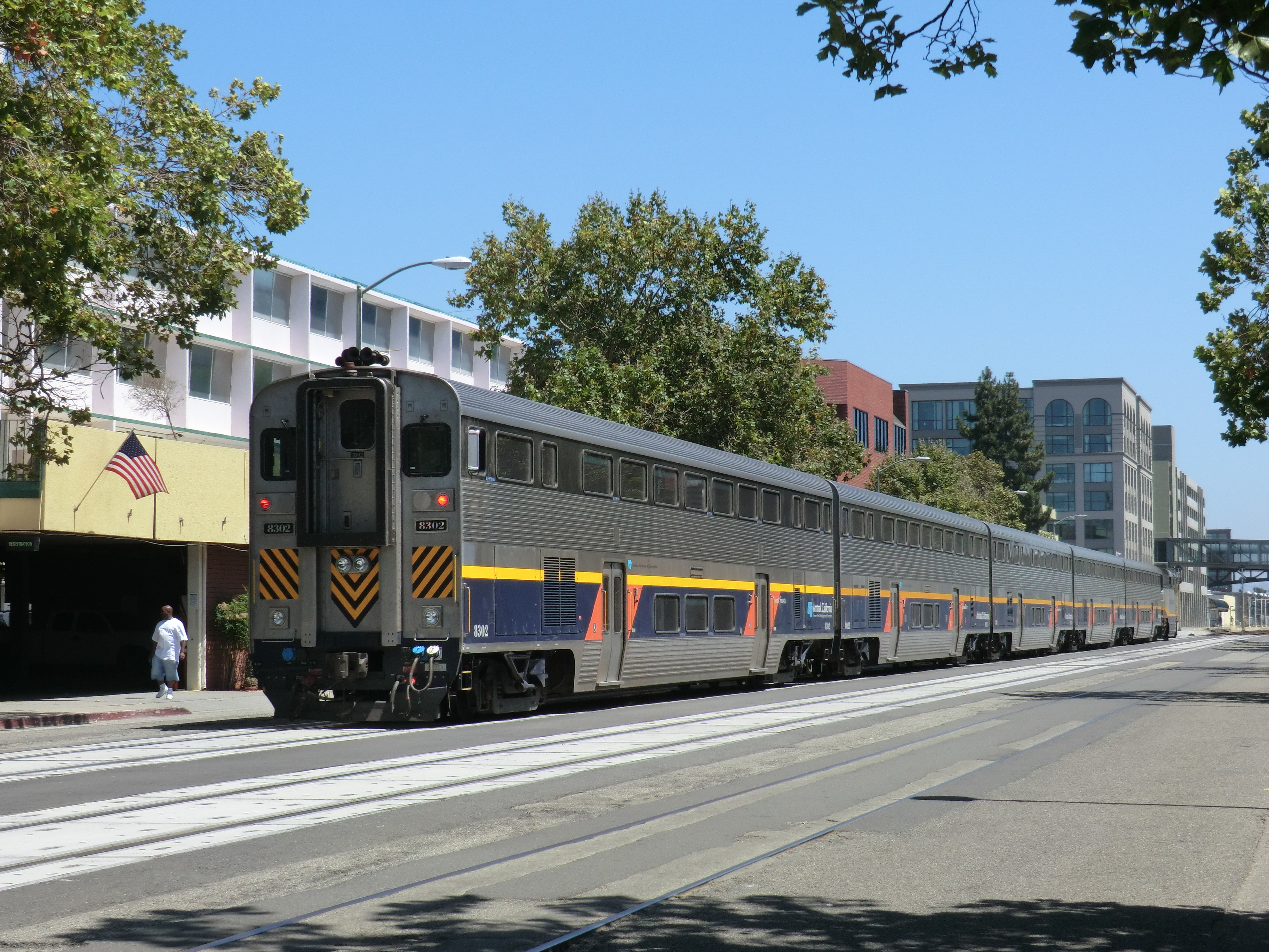 Amtrack California Commuter train in Oakland